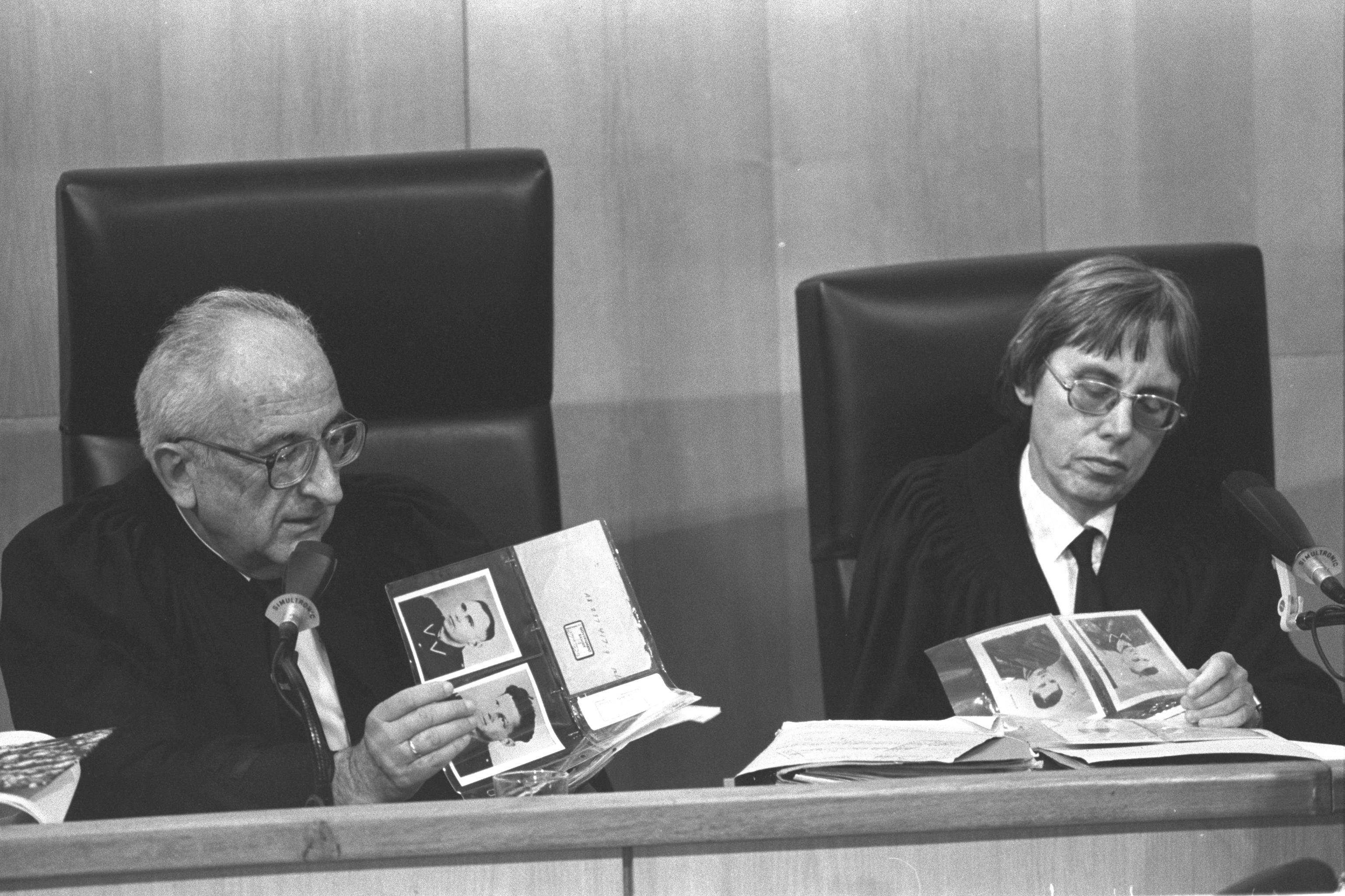 Supreme court justice dov levin and district court judge dalia dorner looking at a photo album during the trial of john (Ivan) Demjanjuk in jerusalem (23/02/1987).